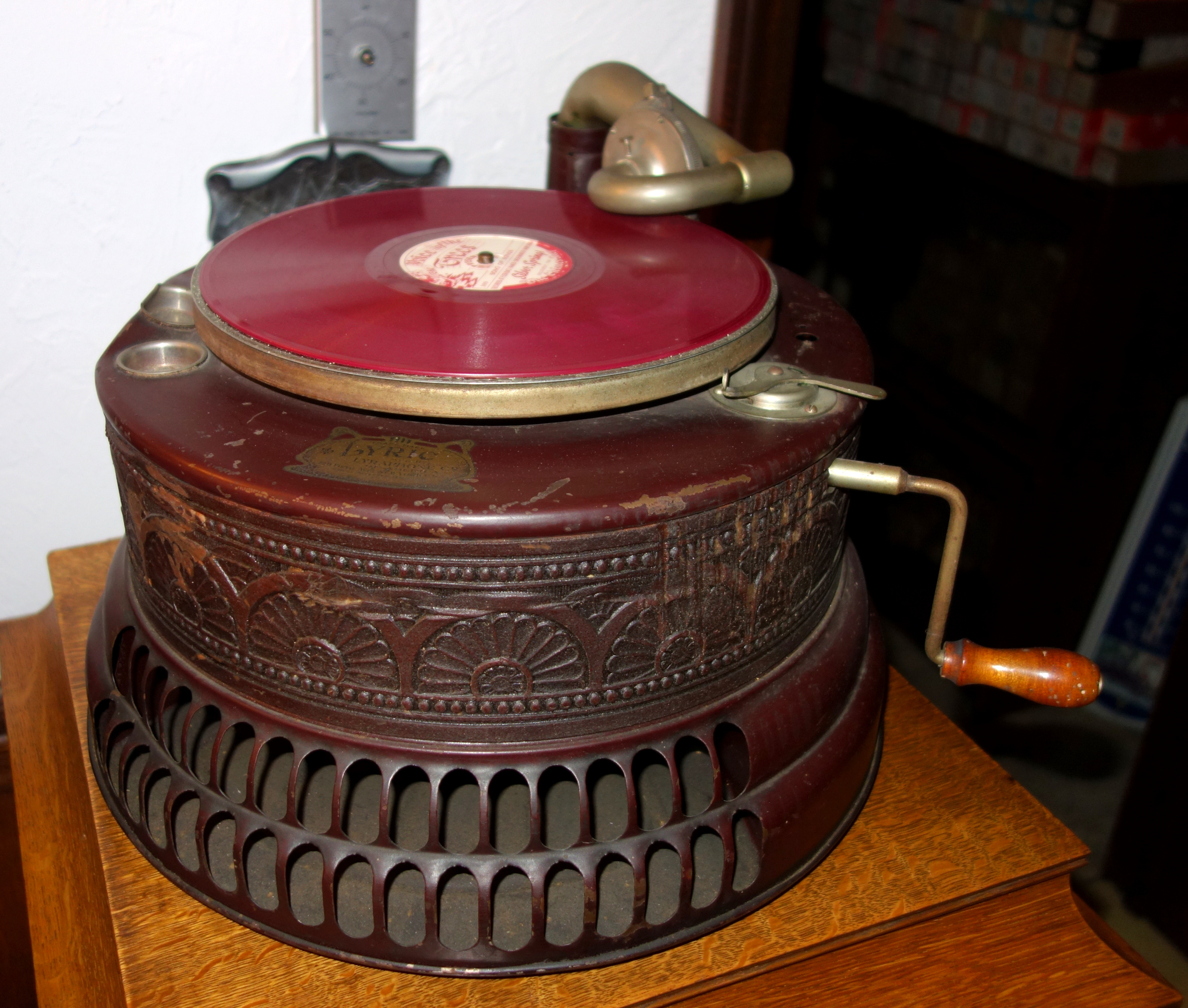 Exhibit in the Bayernhof Museum, 225 St. Charles Place, O'Hara Township, Pittsburgh, Pennsylvania, USA.